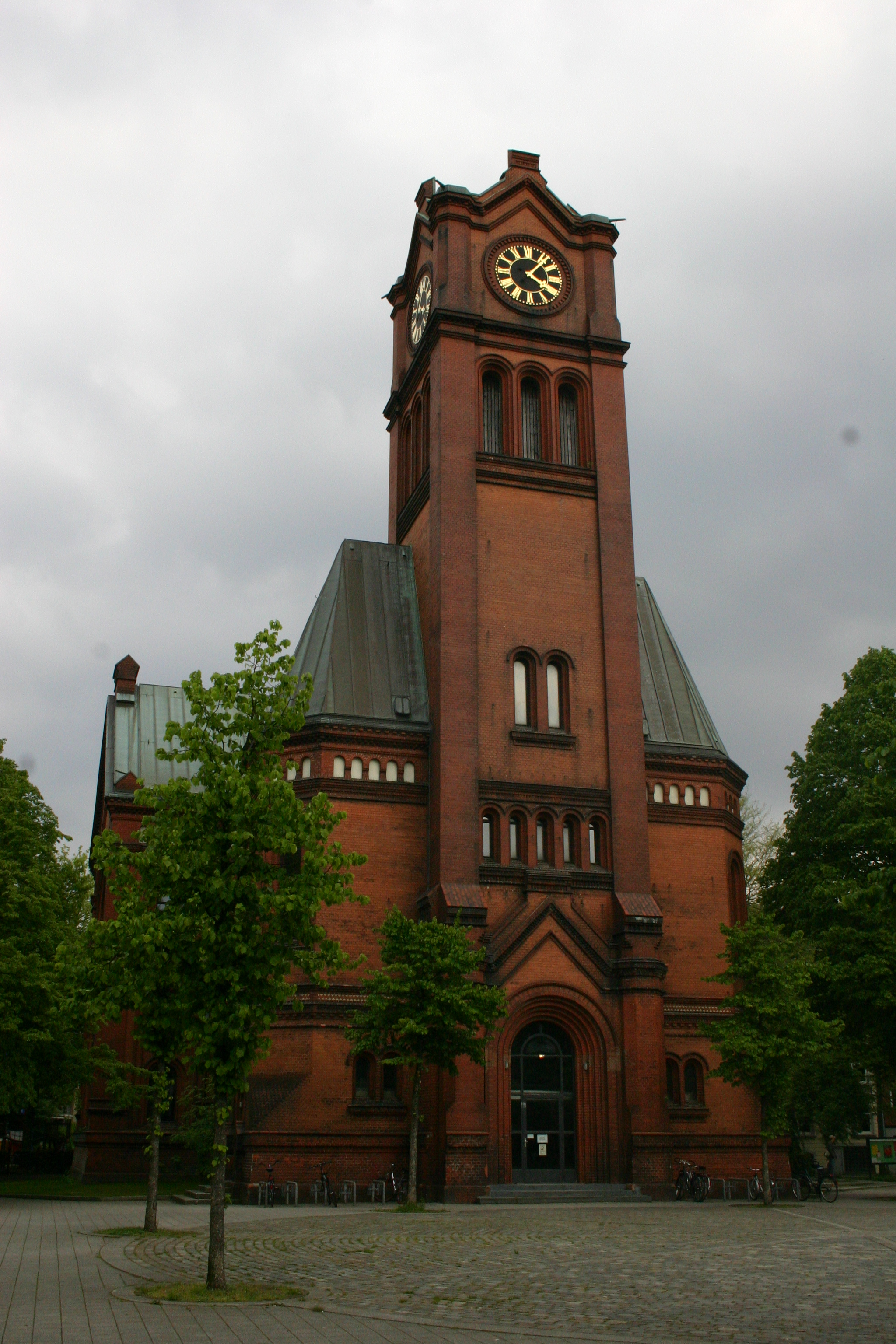 Apostelkirche in Hamburg-Eimsbüttel